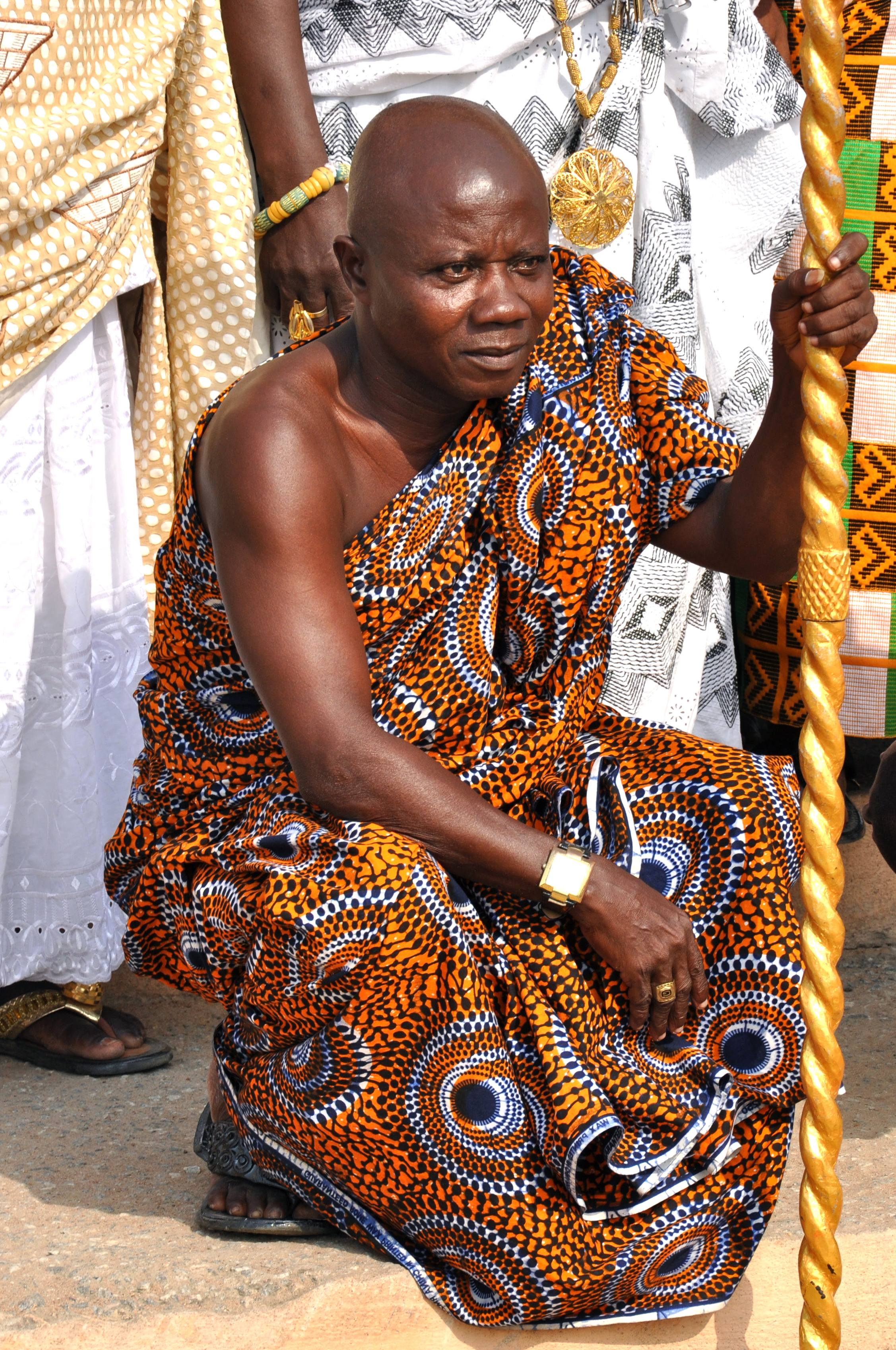 Tribal leaders attend a community health event in Ghana. (USAID/Kasia McCormick) 2012